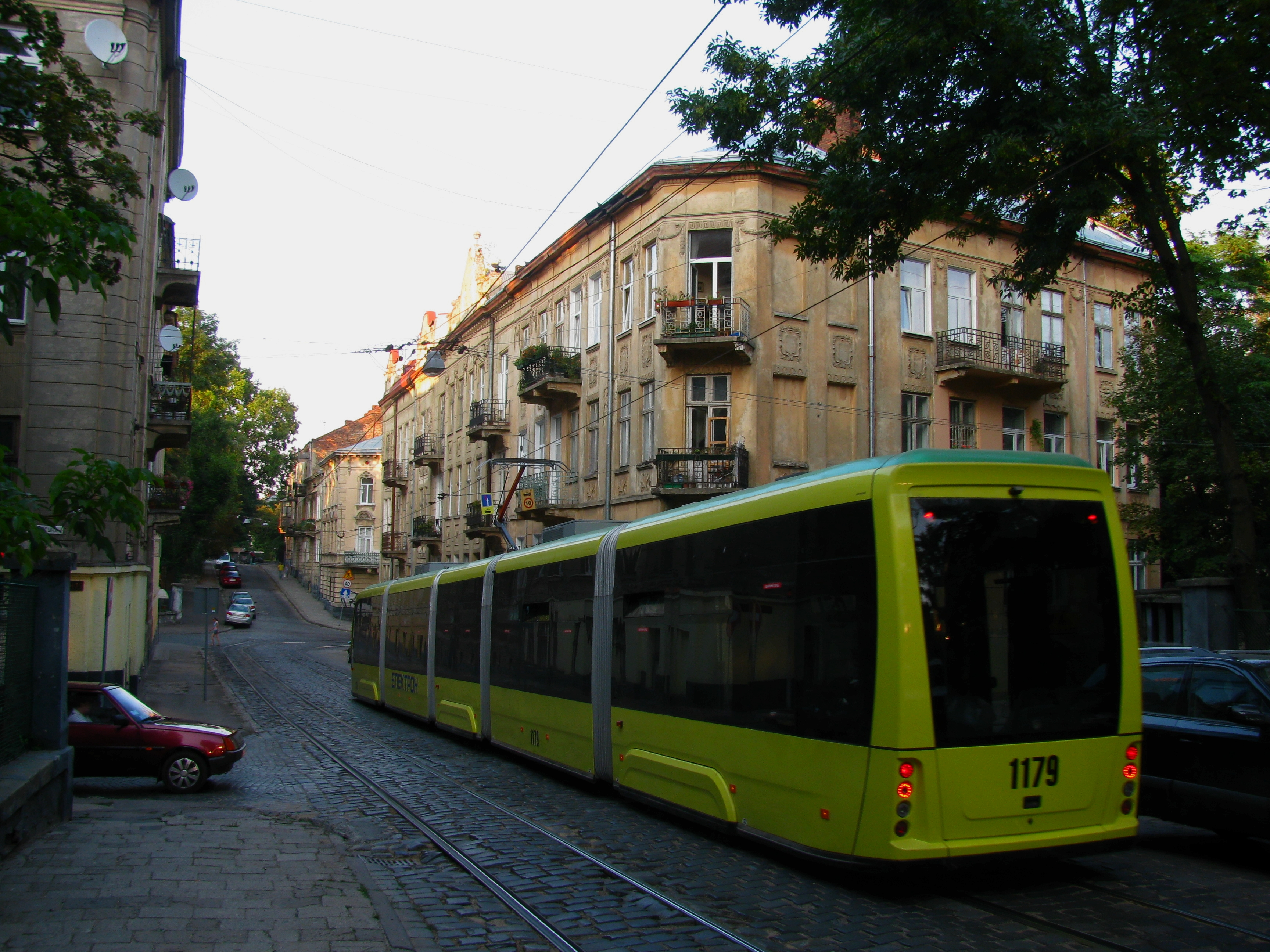 Tram Electron T5L64 on Kotliarevskoho Street in Lviv, Ukraine